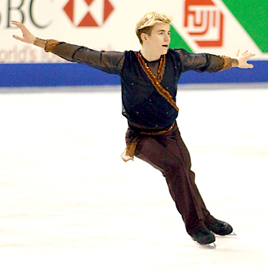 Jeffrey Buttle competes his free program at the 2004 Four Continents Championships in Hamilton, Ontario, Canada.